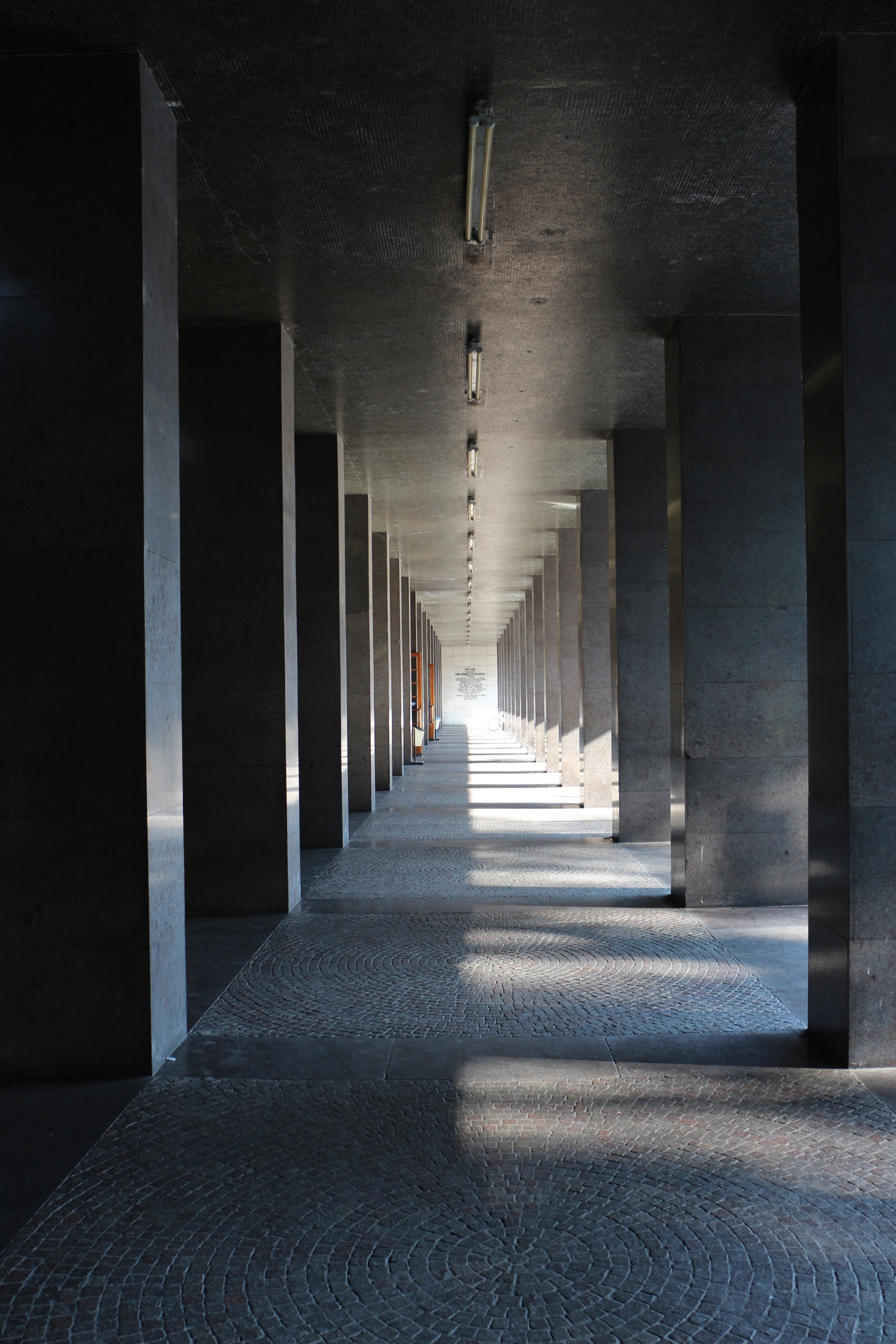 Trento train station